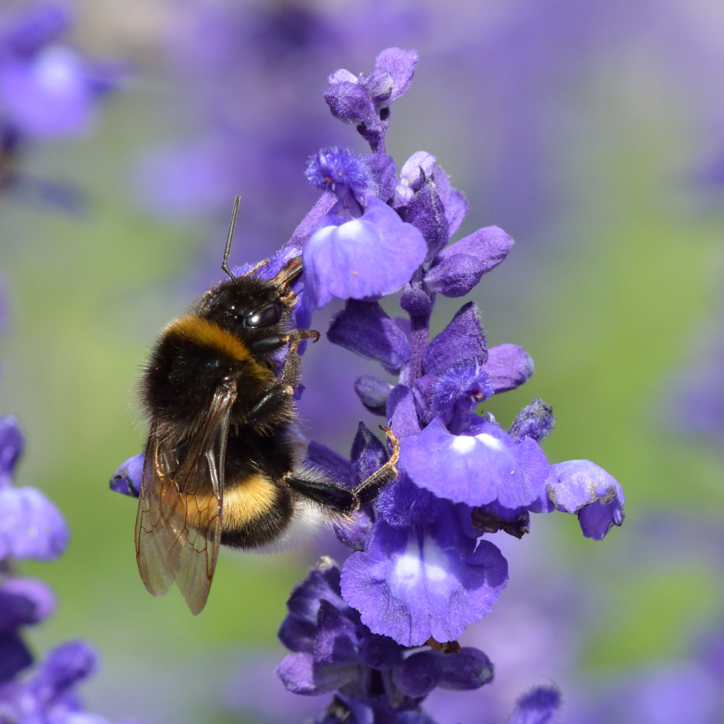 Large earth bumblebee (Bombus terrestris) on the mealycup sage (Salvia farinacea). Old town of Tallinn, Estonia.